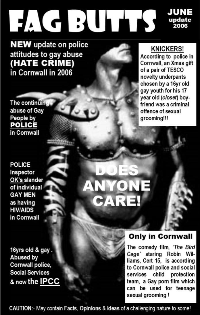 Front cover of Fagbutts, a local gay community newsletter started in 2006 in Cornwall, UK by LGBT equality campaigner Malcolm Lidbury. Devon & Cornwall police threatened legal action if the gay community newsletter continued to be published. It ceased publication in 2007. 2015 Malcolm Lidbury as a CHILD Sex Abuse Survivor having been in a pedophile ring when he was a child from age 6-10yrs submitted witness testimony to the UK statutory CSA Inquiry set up by Home Secretary Theresa May 'Goddard Inquiry'. So brutal & abusive had been his experience as a gay man been of homophobic police over many years, he placed his witness testimony online out of complete distrust of the authorities